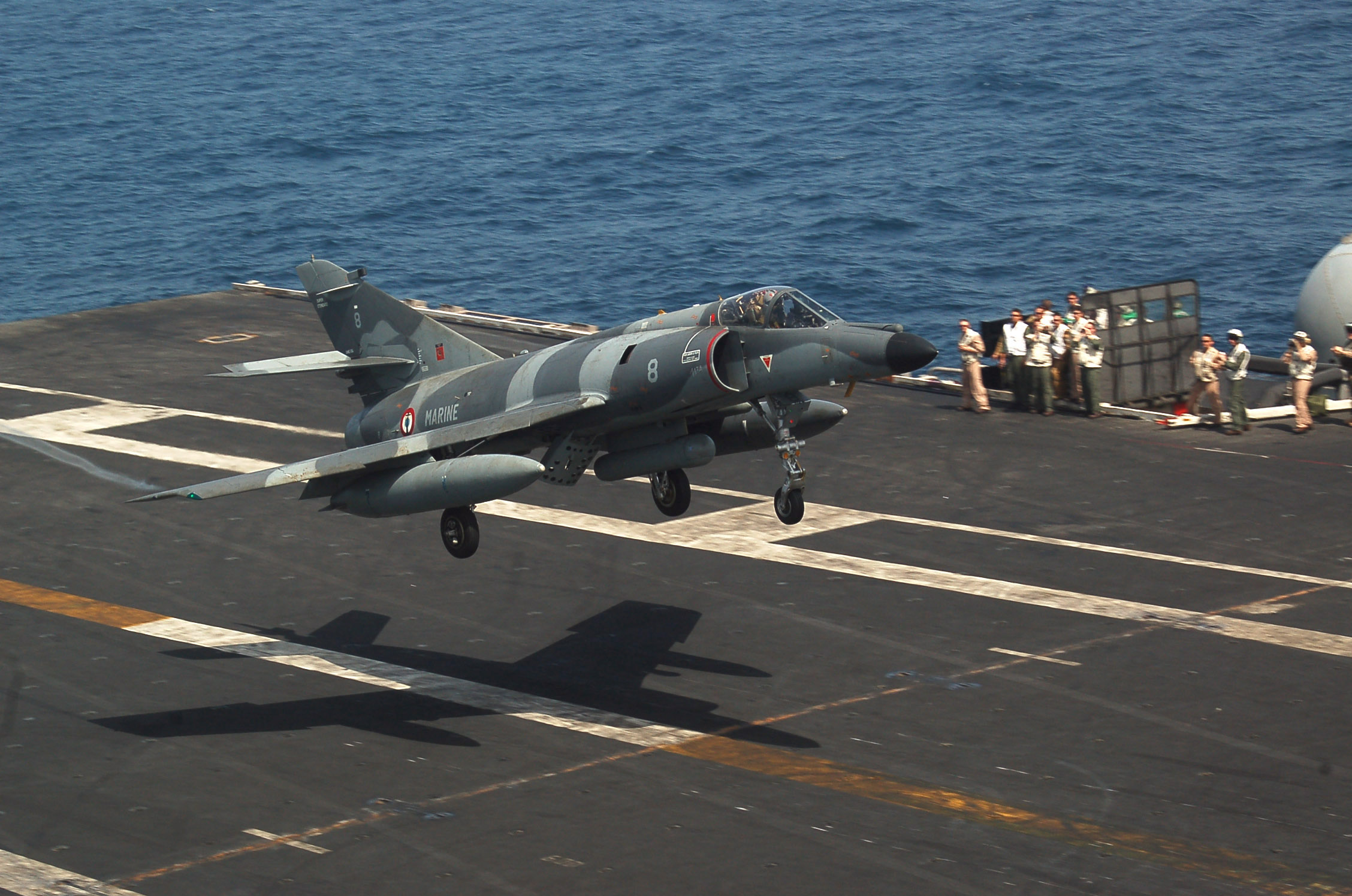 ARABIAN SEA (April 12, 2007) - A French Super-Etendard from the nuclear-powered aircraft carrier French Navy Ship Charles de Gaulle (R 91) performs a touch-and-go landing on the flight deck of the Nimitz-class aircraft carrier USS John C. Stennis (CVN 74). Stennis, as part of the John C. Stennis Carrier Strike Group, and Charles de Gaulle, the flagship of Commander, Task Force 473, are operating in the North Arabian Sea. Stennis and Charles de Gaulle are conducting bilateral exercises and supporting multi-national ground forces in Afghanistan. U.S Navy photo by Mass Communication Specialist 2nd Class Mark Logico (RELEASED)